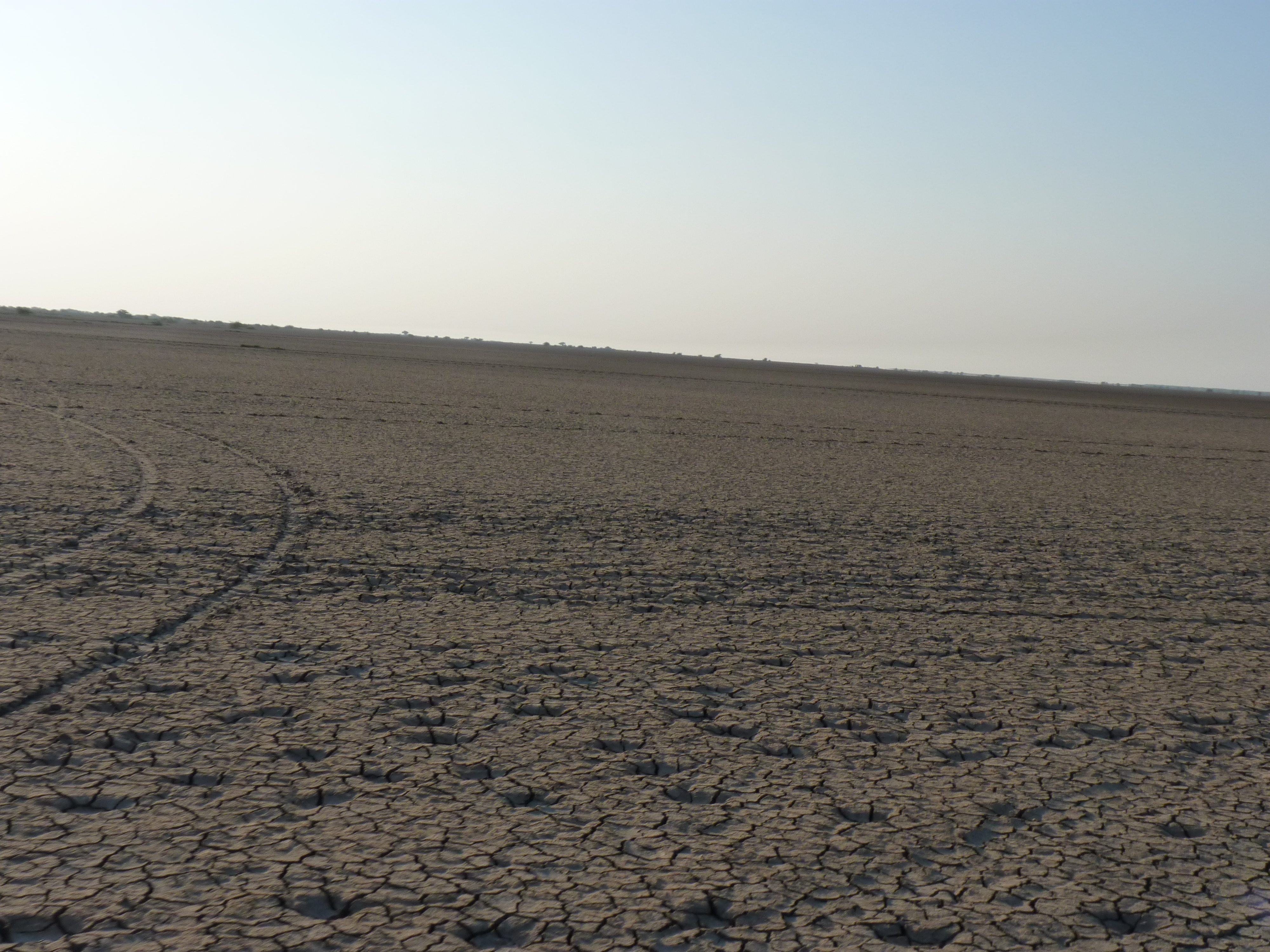 little rann of kutch